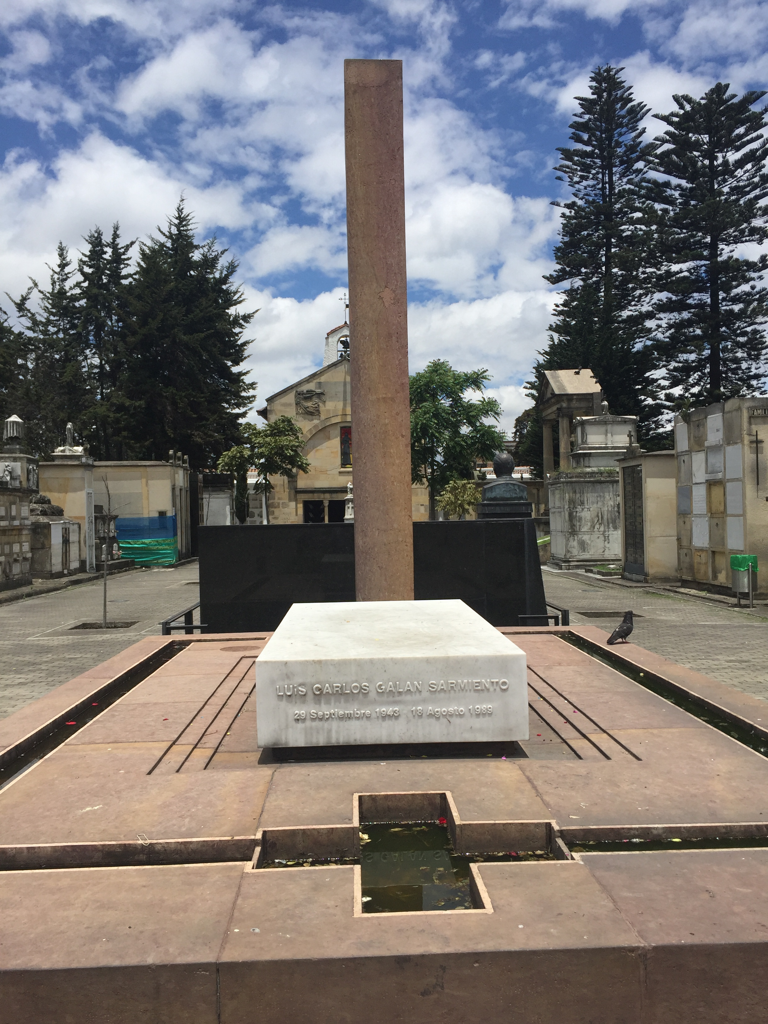 Grave of Luis Carlos Galán